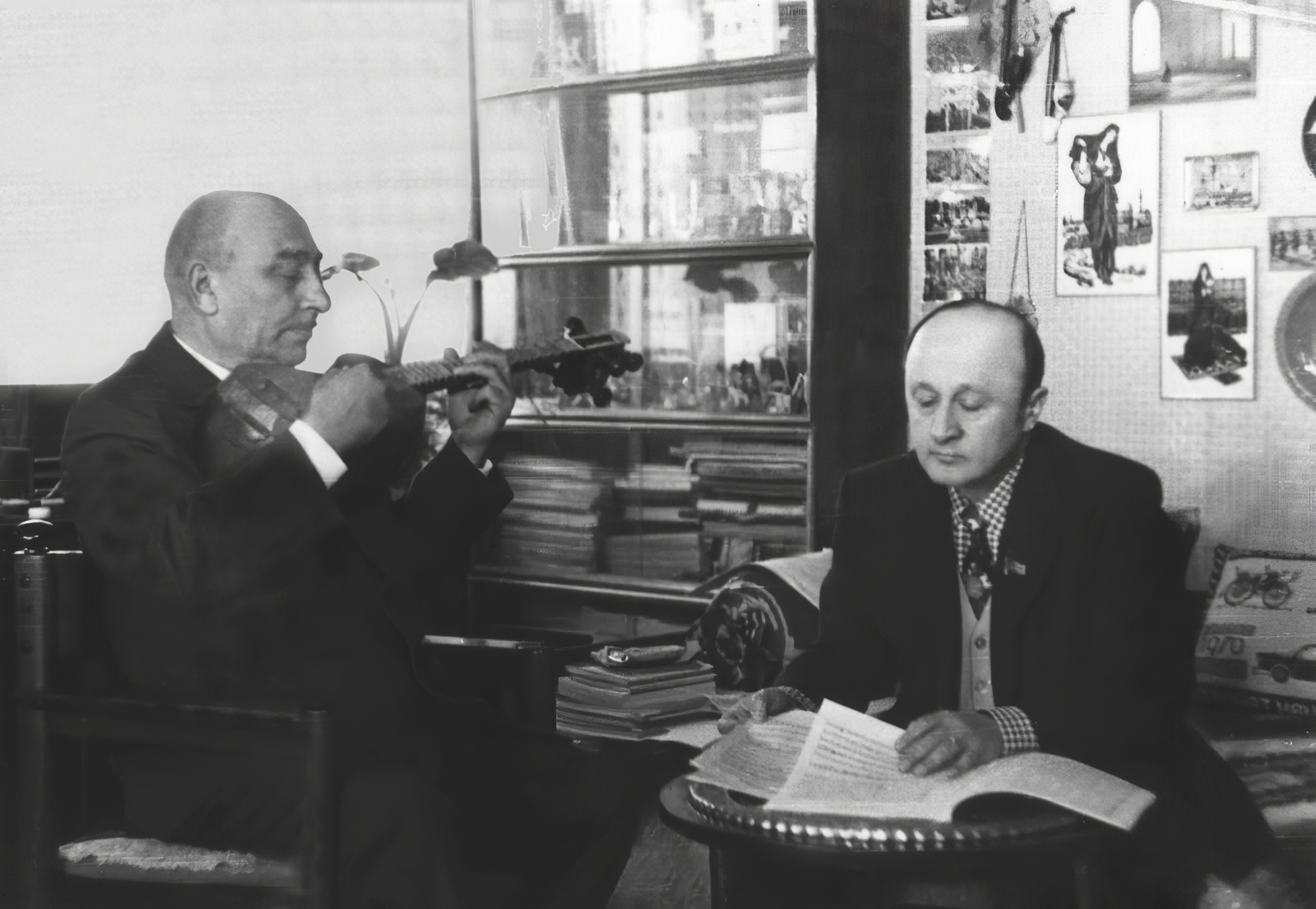 Fikret Amirov and Bahram Mansurov in 1973.